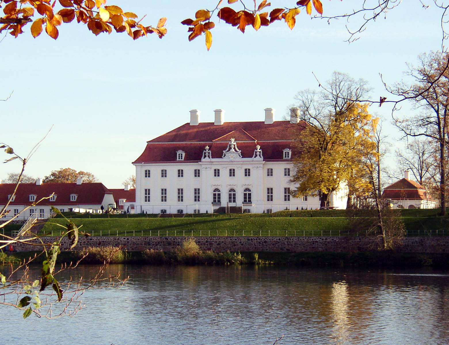 Lake Huwenow and Palace in Gransee-Meseberg, Brandenburg, Germany